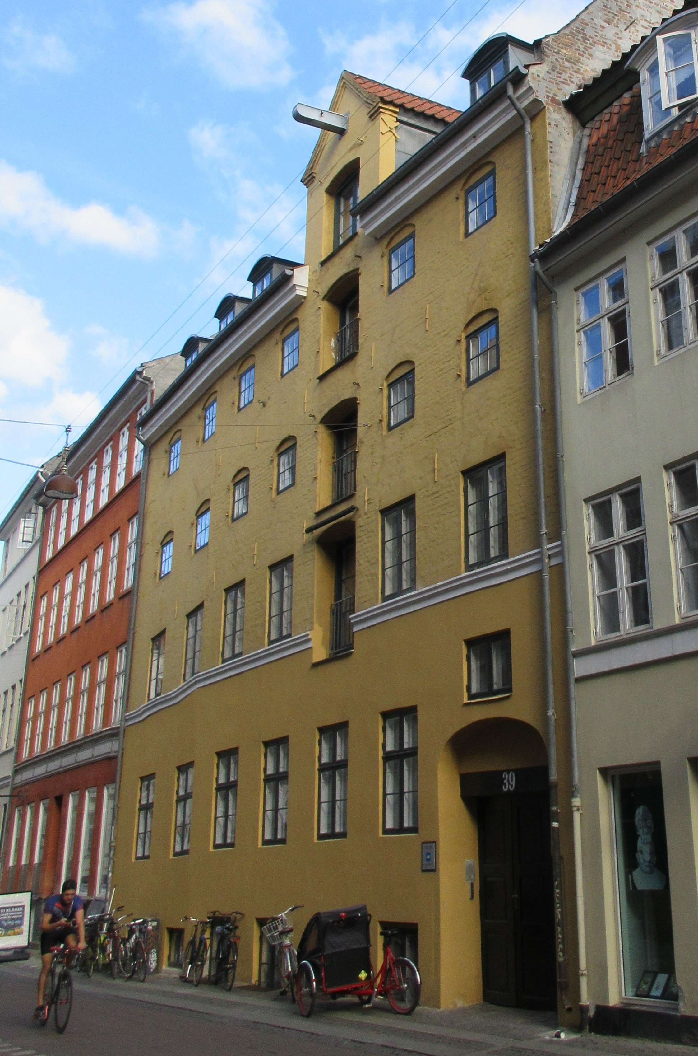 Kompagnihuset at Kompagnistræde 39 in Copenahgen, Denmark